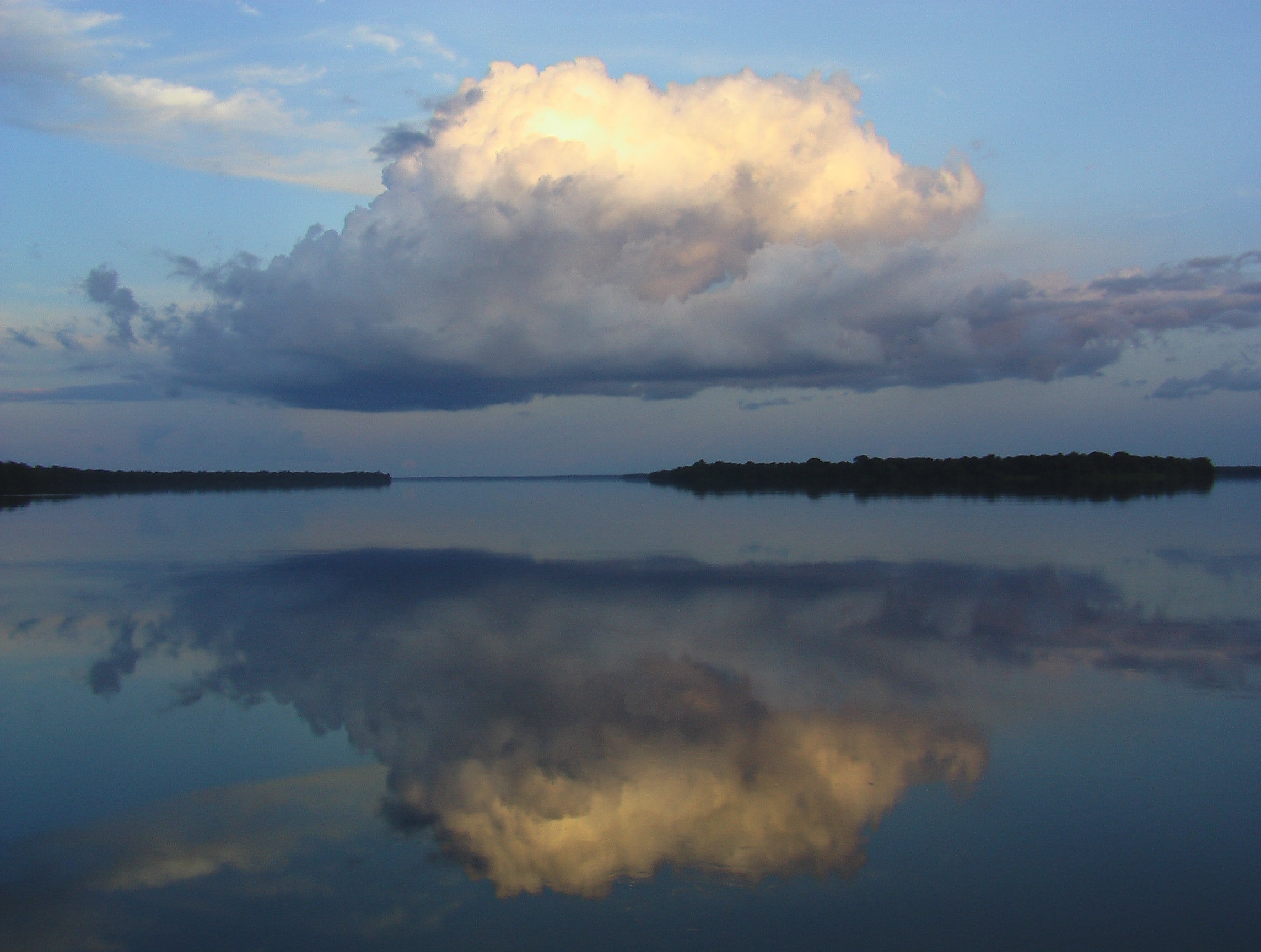 Black river (Rio Negro). Amazon jungle - BRAZIL